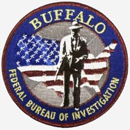 Buffalo FBI patch.